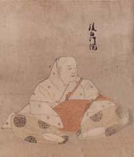 77th Emperor Goshirakawa (後白河天皇 Goshirakawa-tennō), who is presumed to have reigned Japan from 1155 till 1158, and as in from 1158 to 1192.